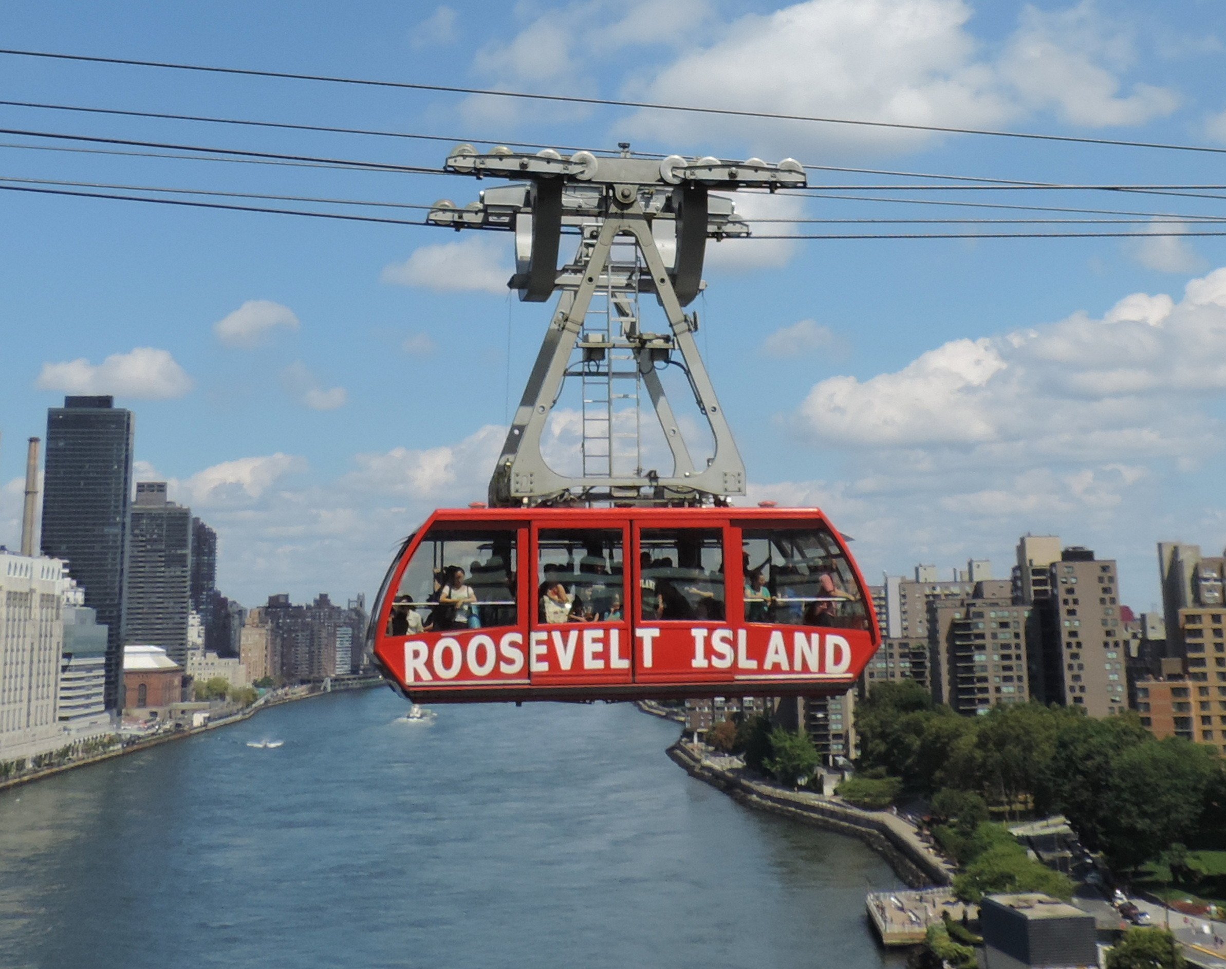 Looking north at tram from bridge on a mostly sunny late morning.